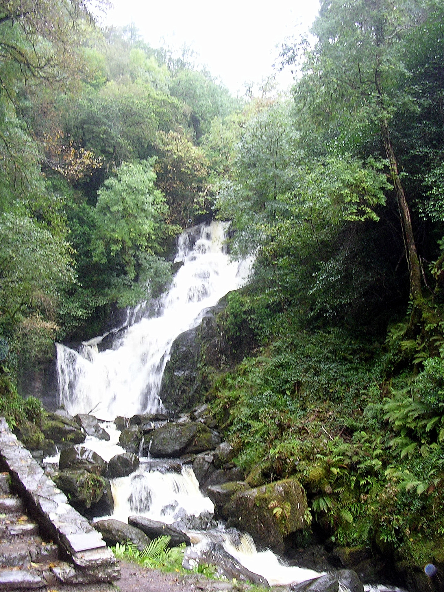 Torc Falls, Killarney National Park